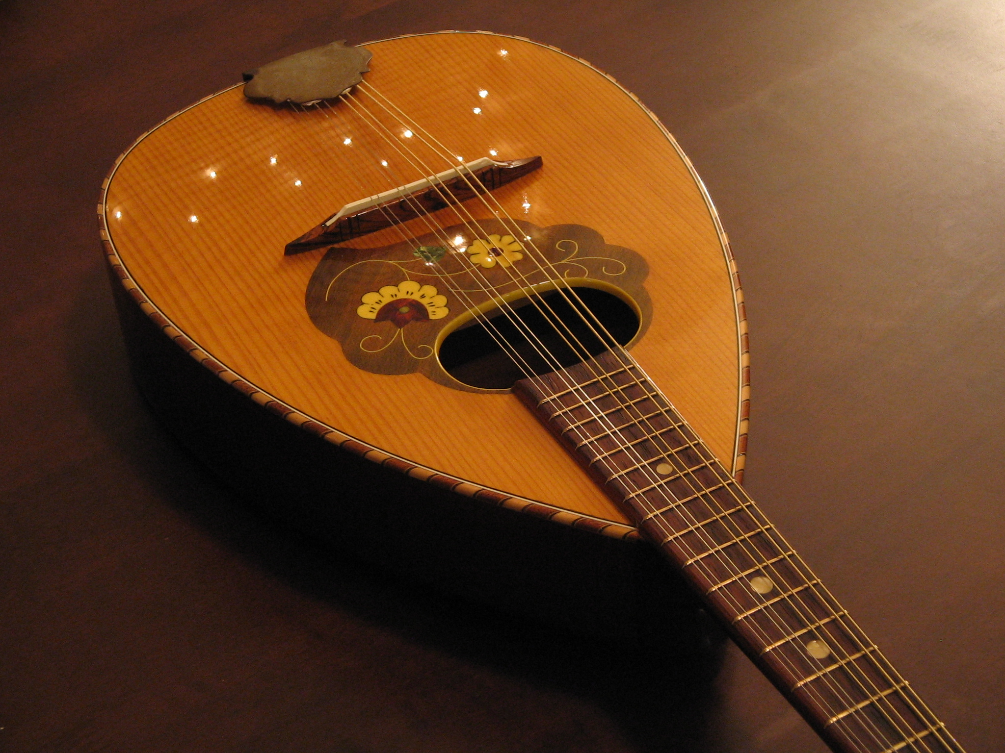 A "Hauser" mandolin from Germany which was made in the 1950's and refinished in 2007.